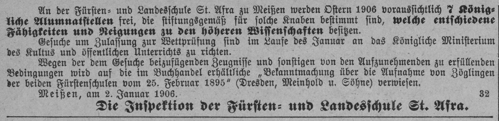 Scan from the Dresdner Journal, 1906